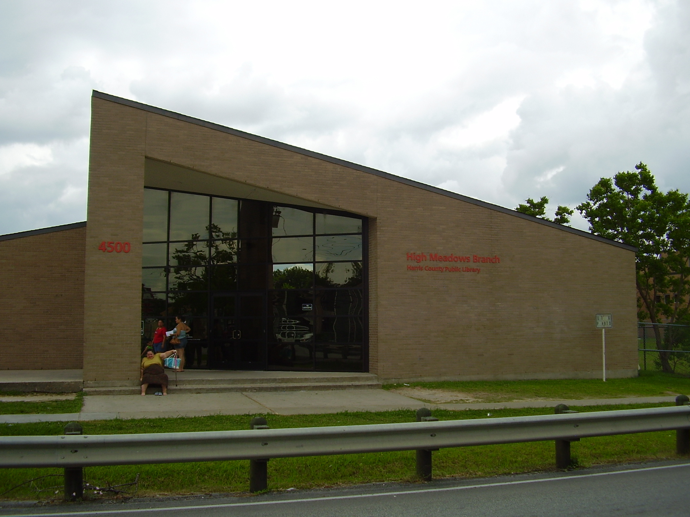 High Meadows Branch